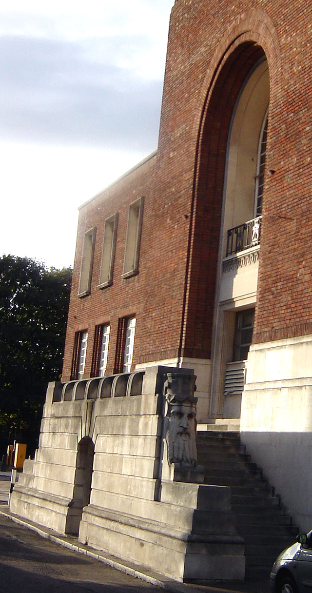 Hammersmith Town Hall rear entrance, Hammersmith, London. 28 September 2005. Photographer: Fin Fahey.